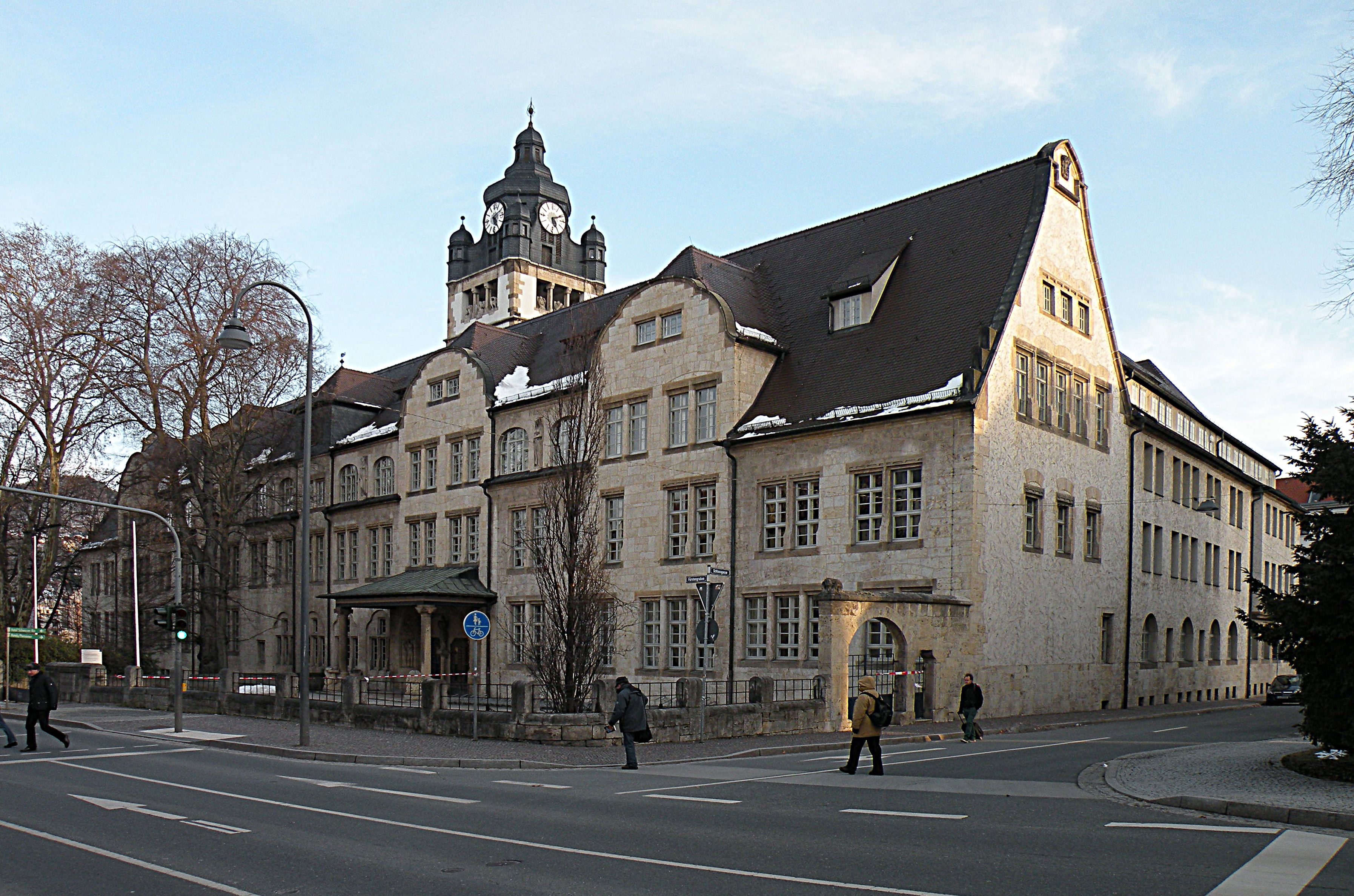 University Main Building, Jena, Germany